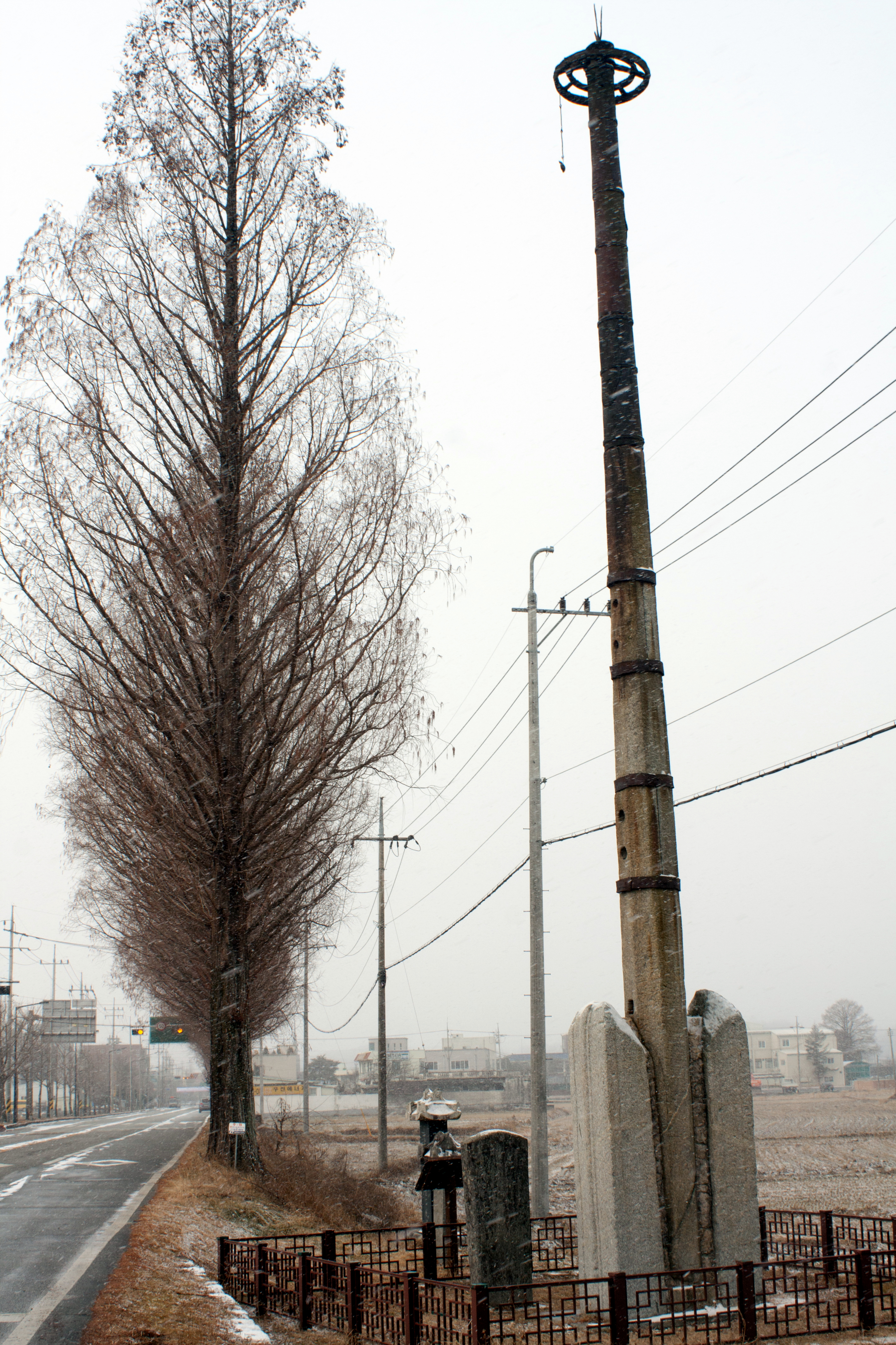 Dangganjiju at Gaeksa-ri in Damyang, Korea